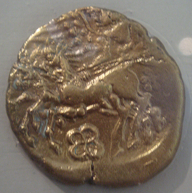 Coin_of_the_Pictones.